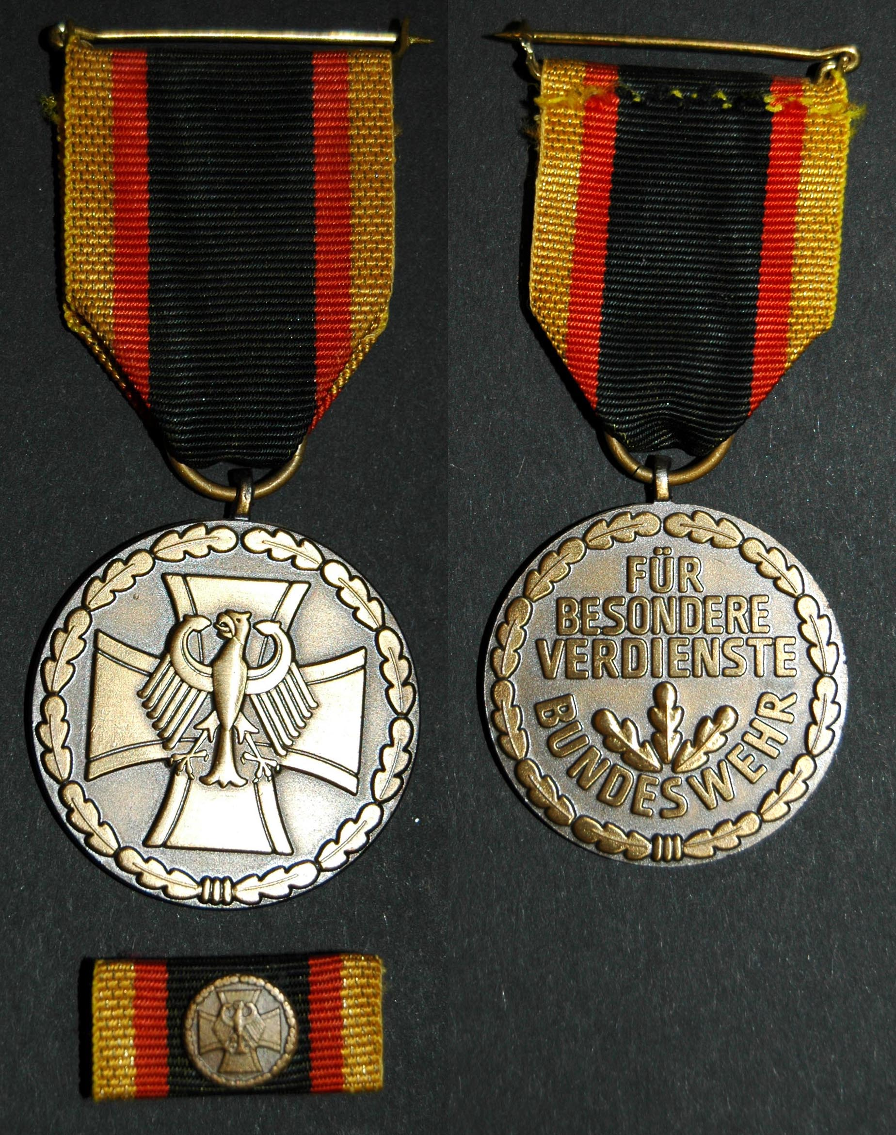 Ehrenmedaille der Bundeswehr (German Federal Armed Forces): Font side and ribbon bar (left) Backside (right).